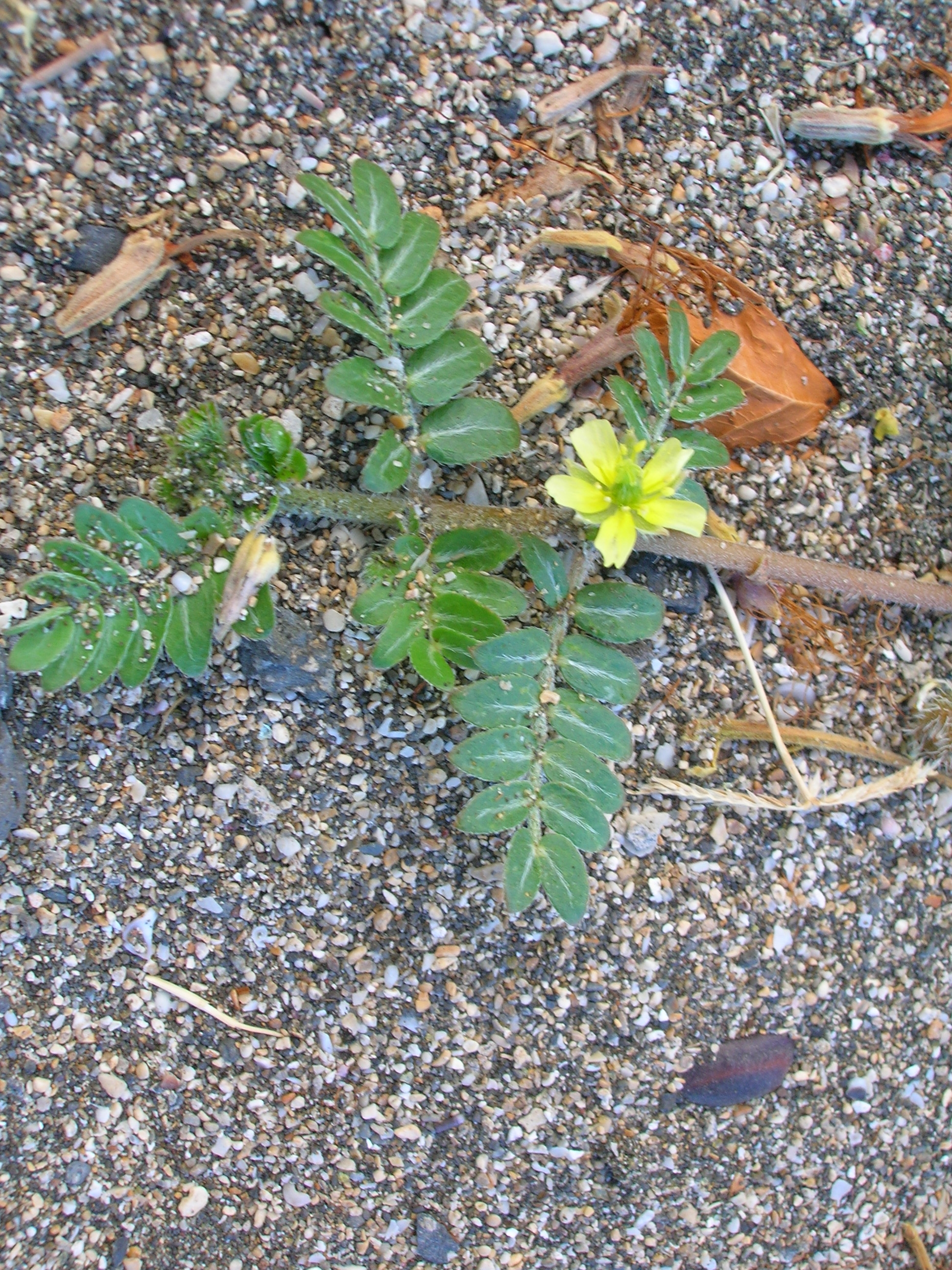 Tribulus terrestris (flower and leaves). Location: Maui, Launiupoko